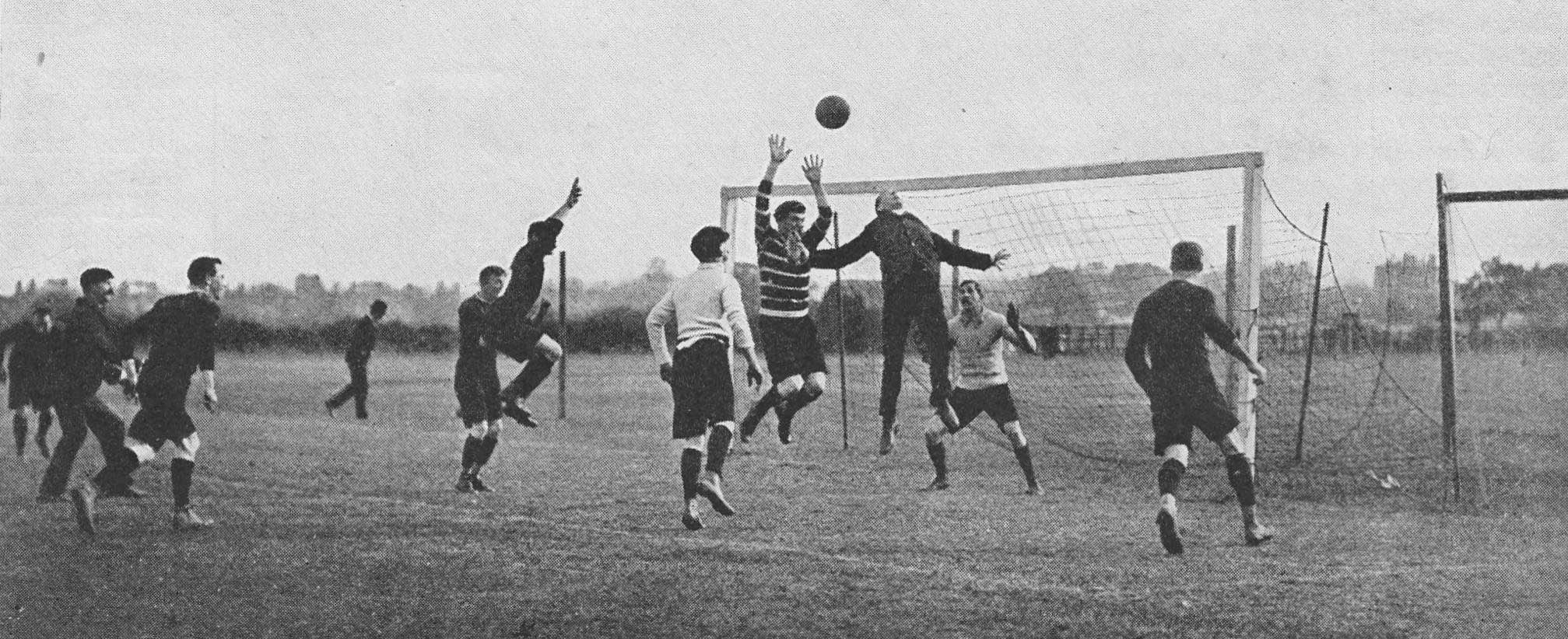 The All Blacks playing football with the rugby ball. This was during their training for their match against Surrey during the 1905 tour. The article describes: The lighter side of Football-an echo of the New Zealander's tour, 1905. The "All Blacks" when training for their match against Surrey, played at Richmond on November 1, 1905 (NZ 11 points -1 goal, 2 tries- Surrey nil), practised on the ground of the Ealing Association F.C. at Ealing. The presence of the Association goal-posts and nets led them to try the "Soccer" game with their Rugby ball, with the above fantastic result.